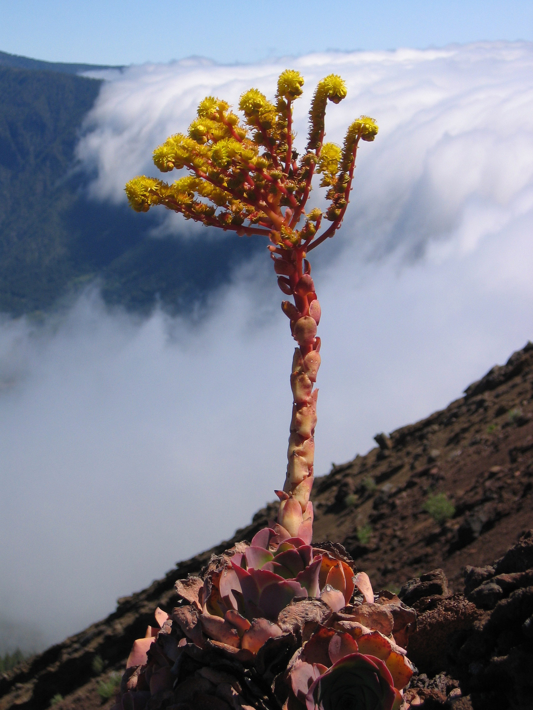 Greenovia aurea, Pico Birigoyo, La Palma, Spain